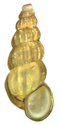 Photo of an apertural views of the shell of Oncomelania hupensis hupensis. .